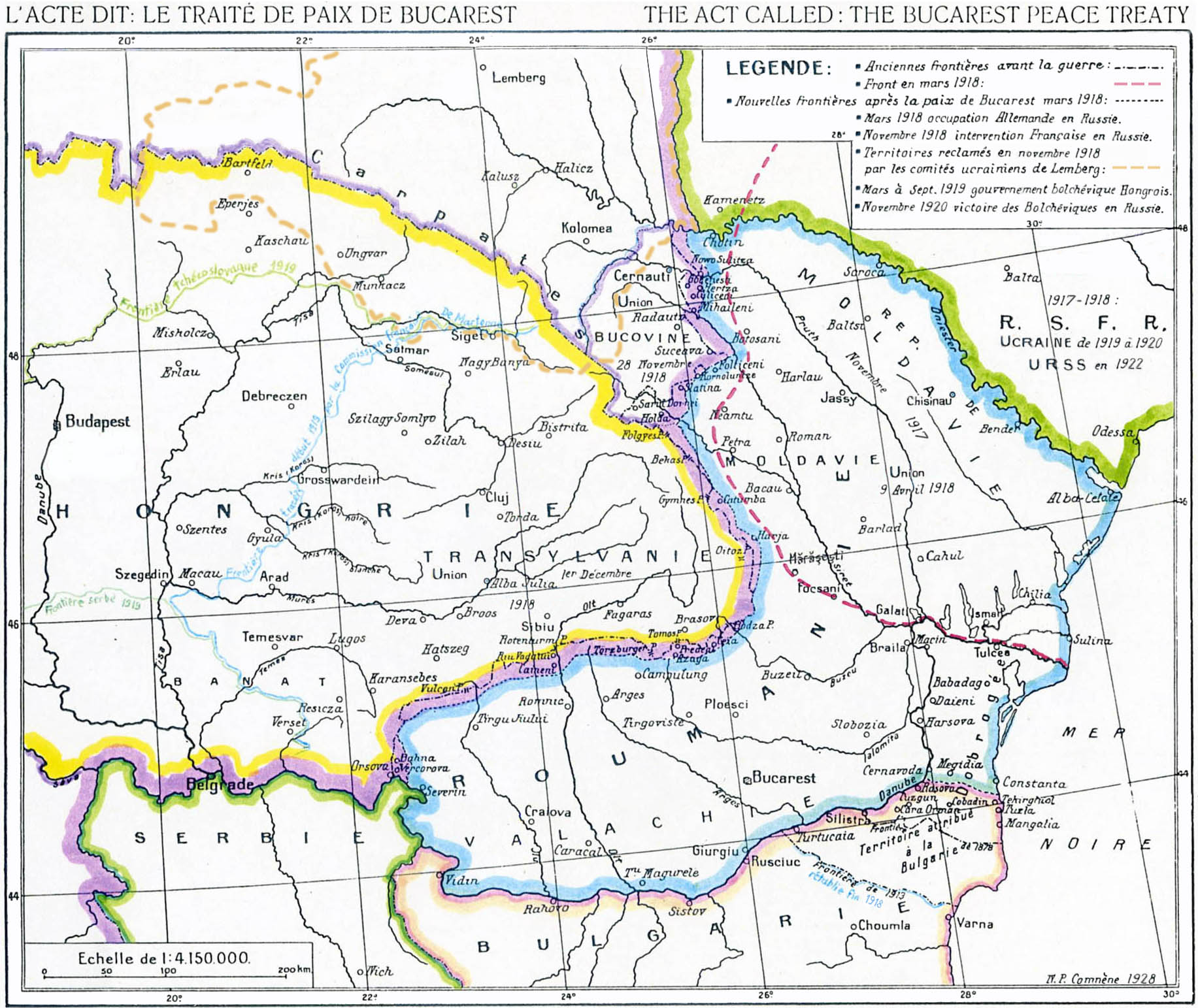 Treaty of Bucharest, 1918